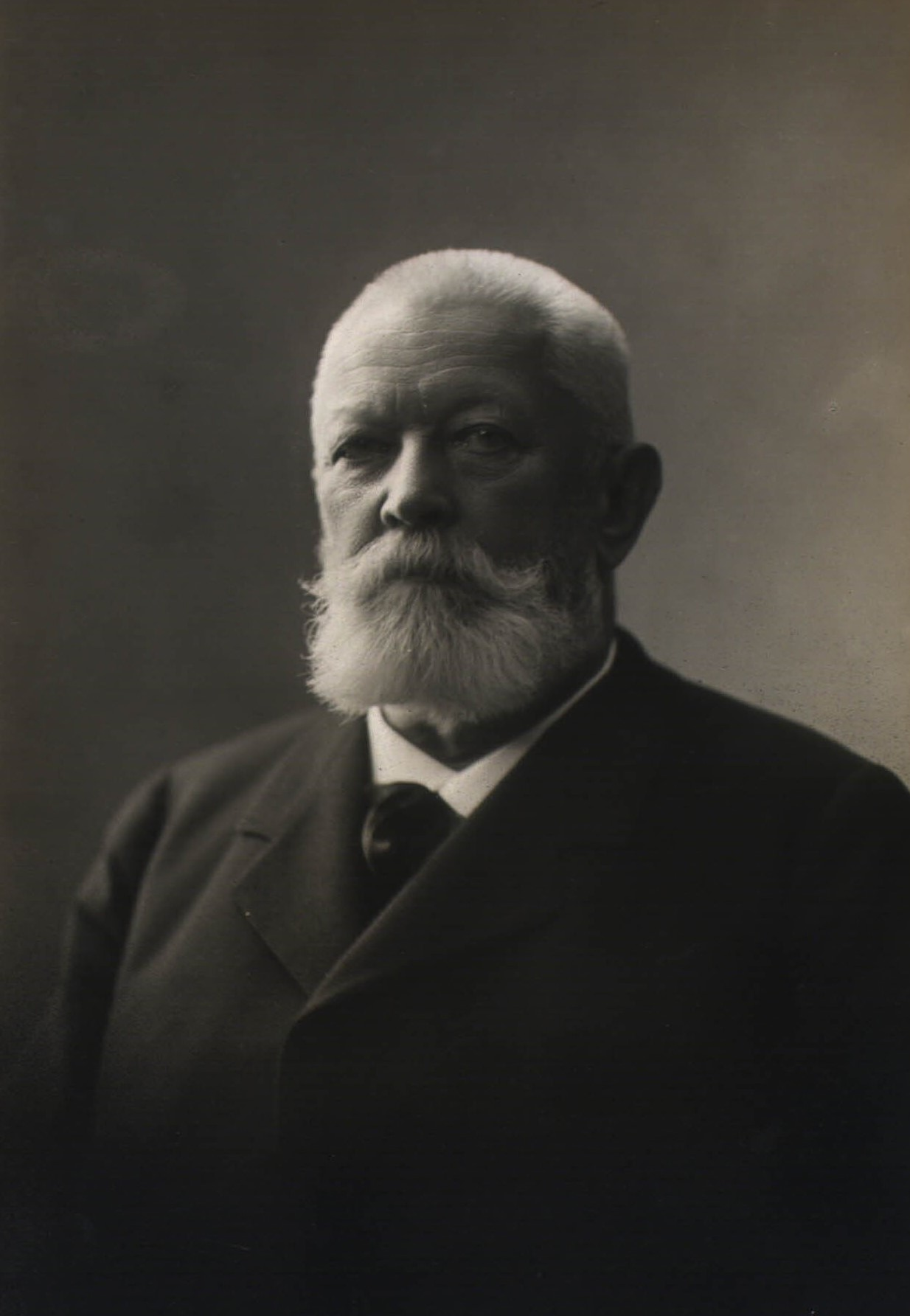 Johan Ludvig (Louis) Carl Christian Tido lensgreve Holstein(-Ledreborg) (1839-1912), Danish Count, Prime Minister of Denmark, MP